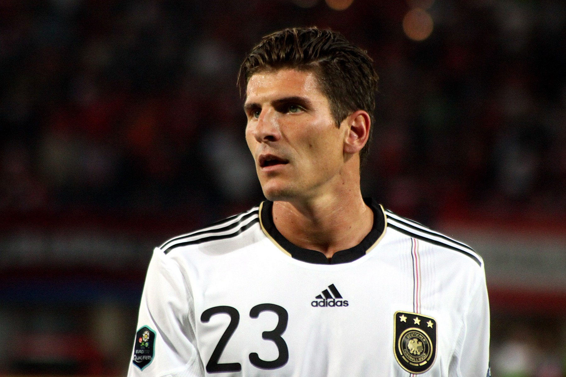 Mario Gómez (FC Bayern Munich), german national football team